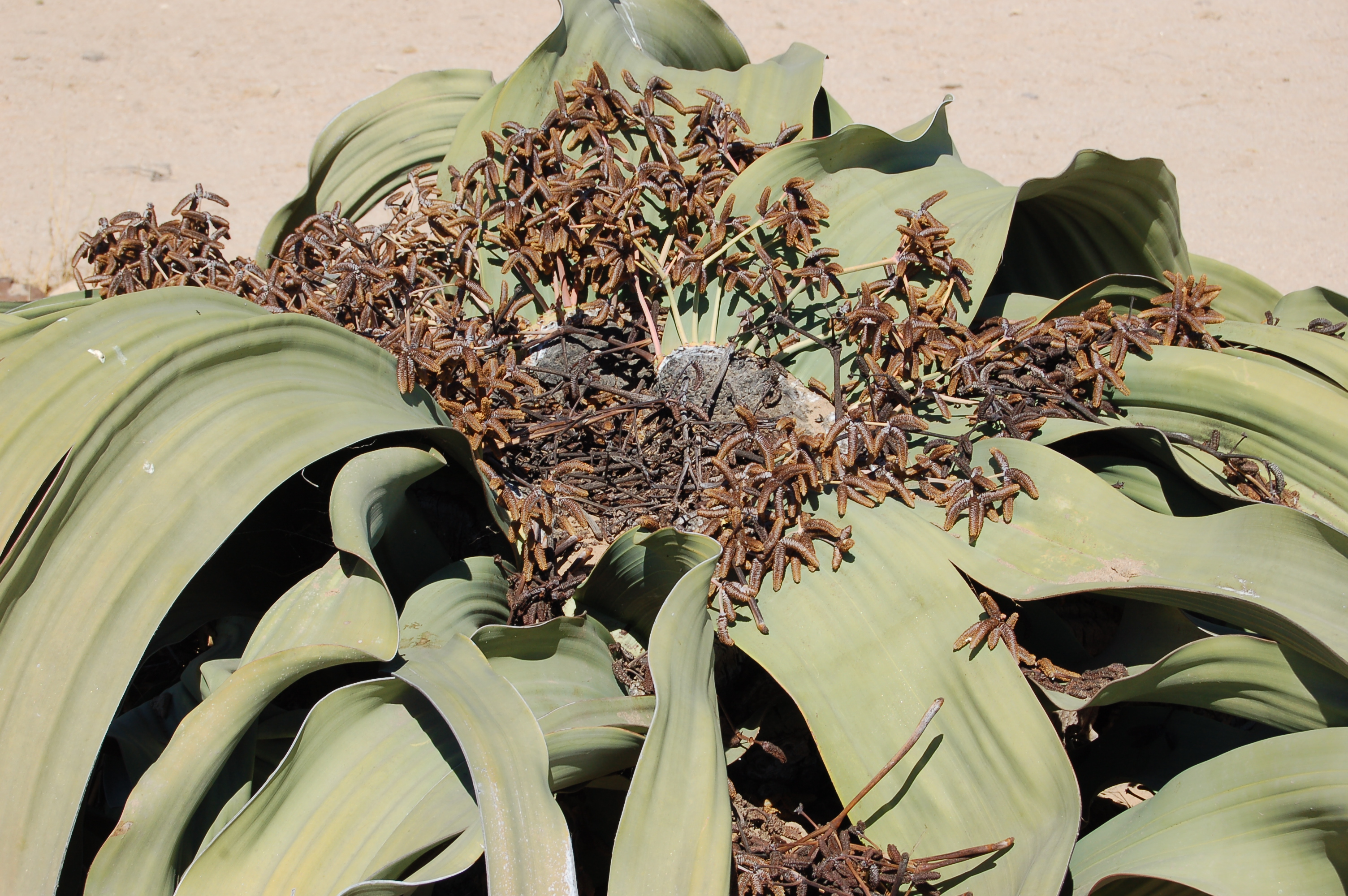 Welwitschia mirabilis, Naukluft, Namibia